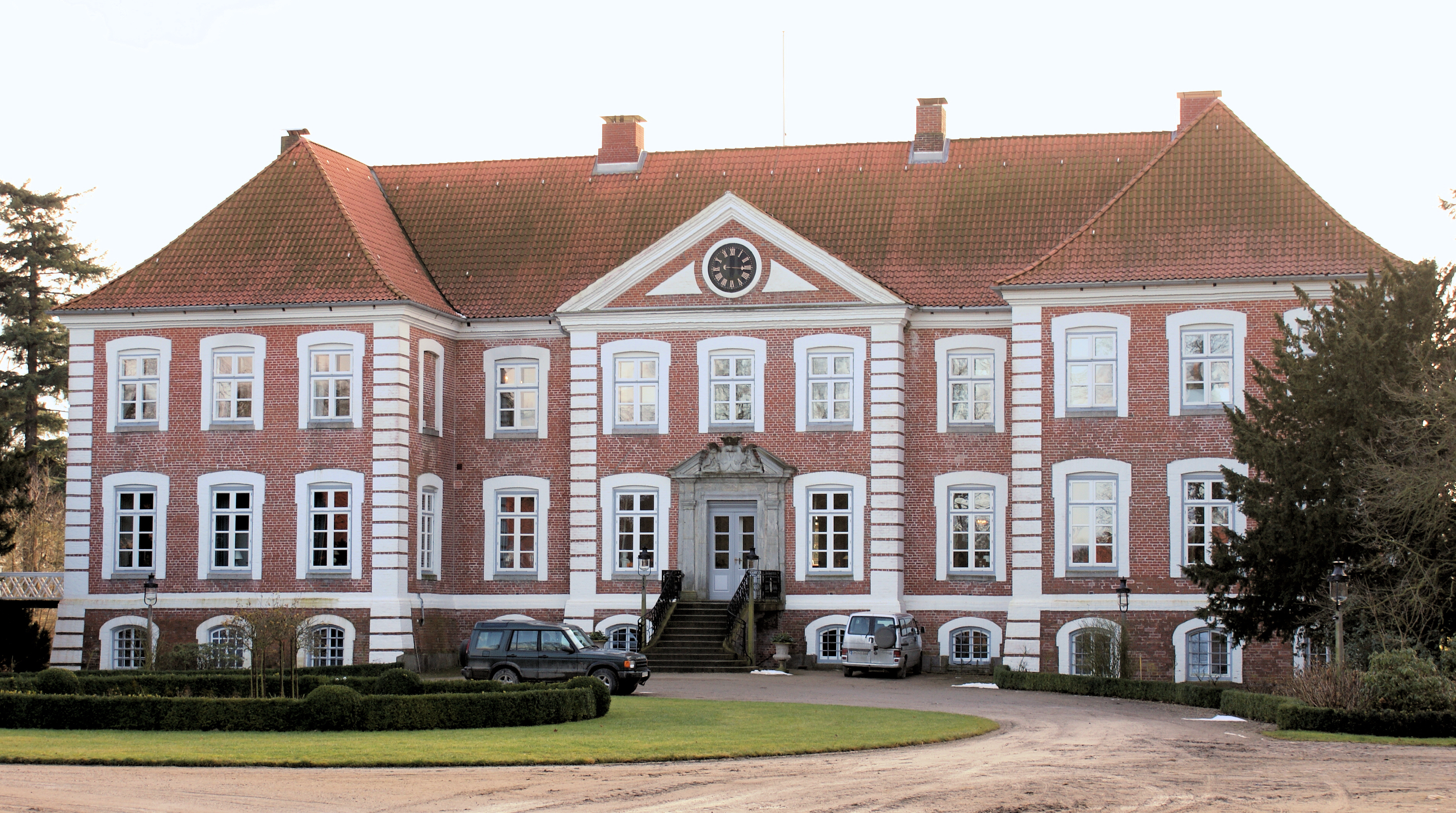 Gueldenstein Manor